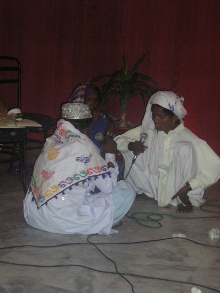 Two Pakistani folk singers, speaking into microphones. A third woman can be seen slightly behind them. One is sitting cross-legged with her back to the viewer, the other squats, facing the viewer.Actresses (Pakistan)